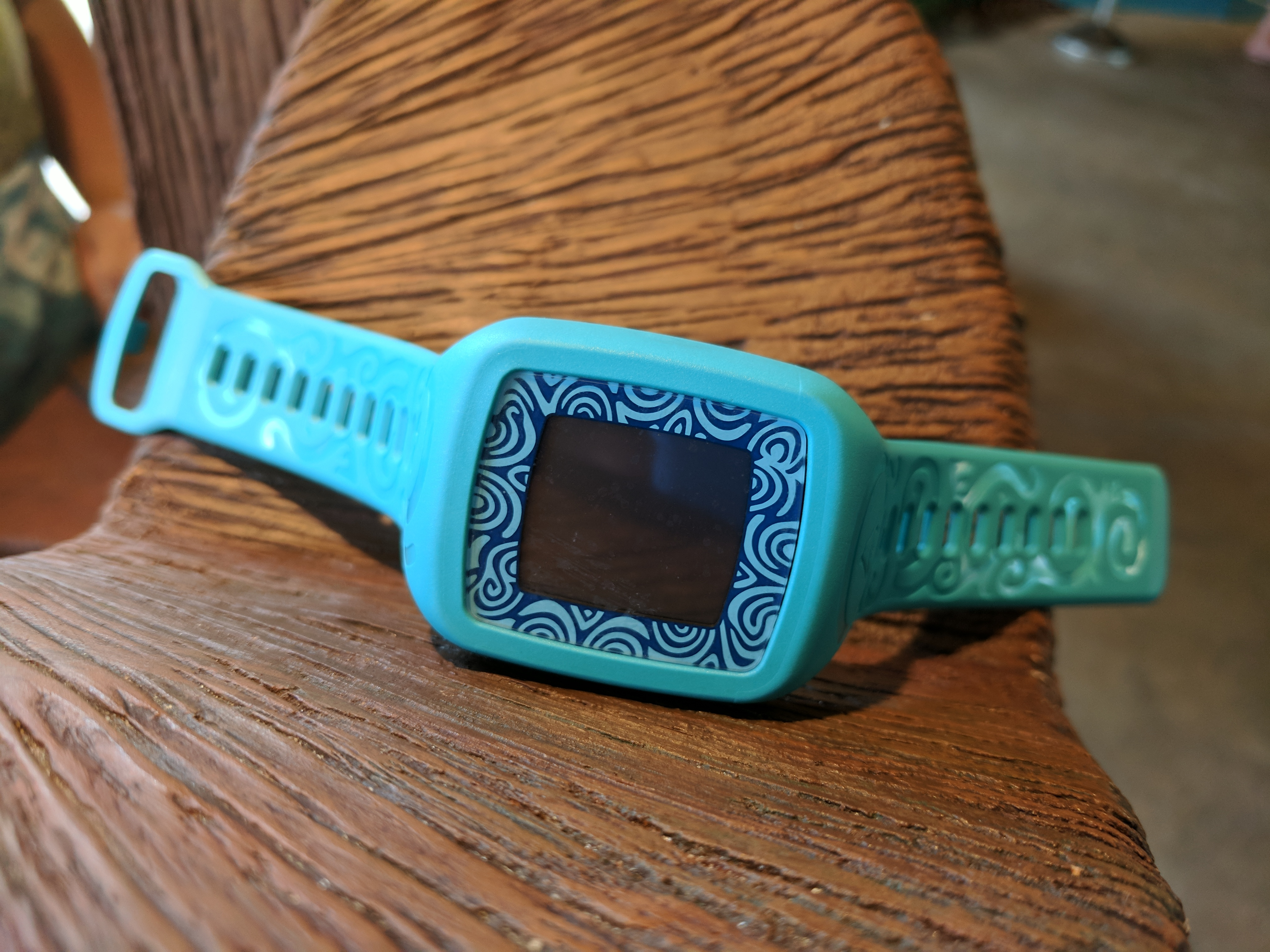 Volcano Bay's wearable